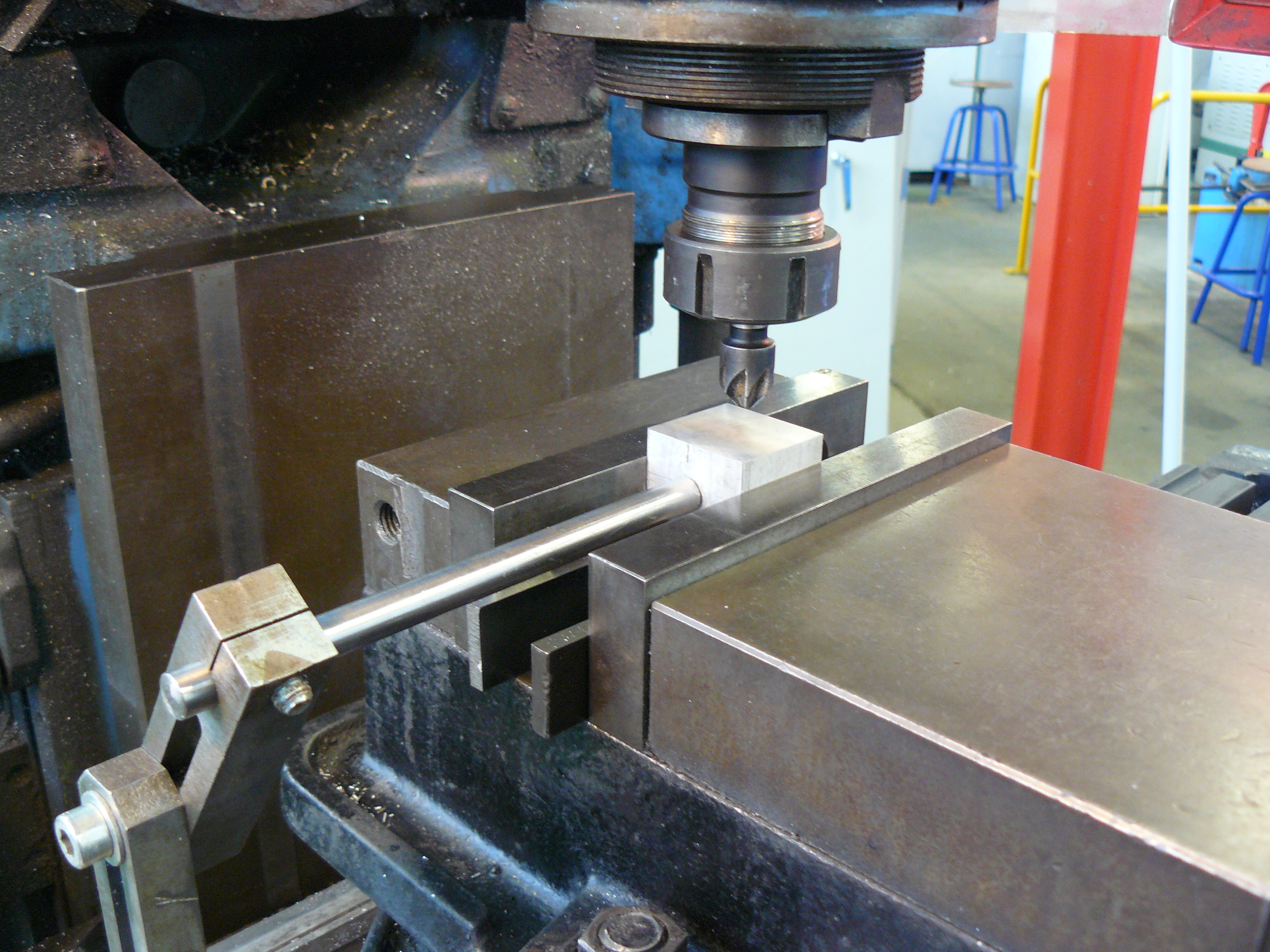 Standard machining mounting on a milling machine: main reference on the fixed jaw of the vise, additional references on the gauge block and the pin (mobile jaw on a machined surface).